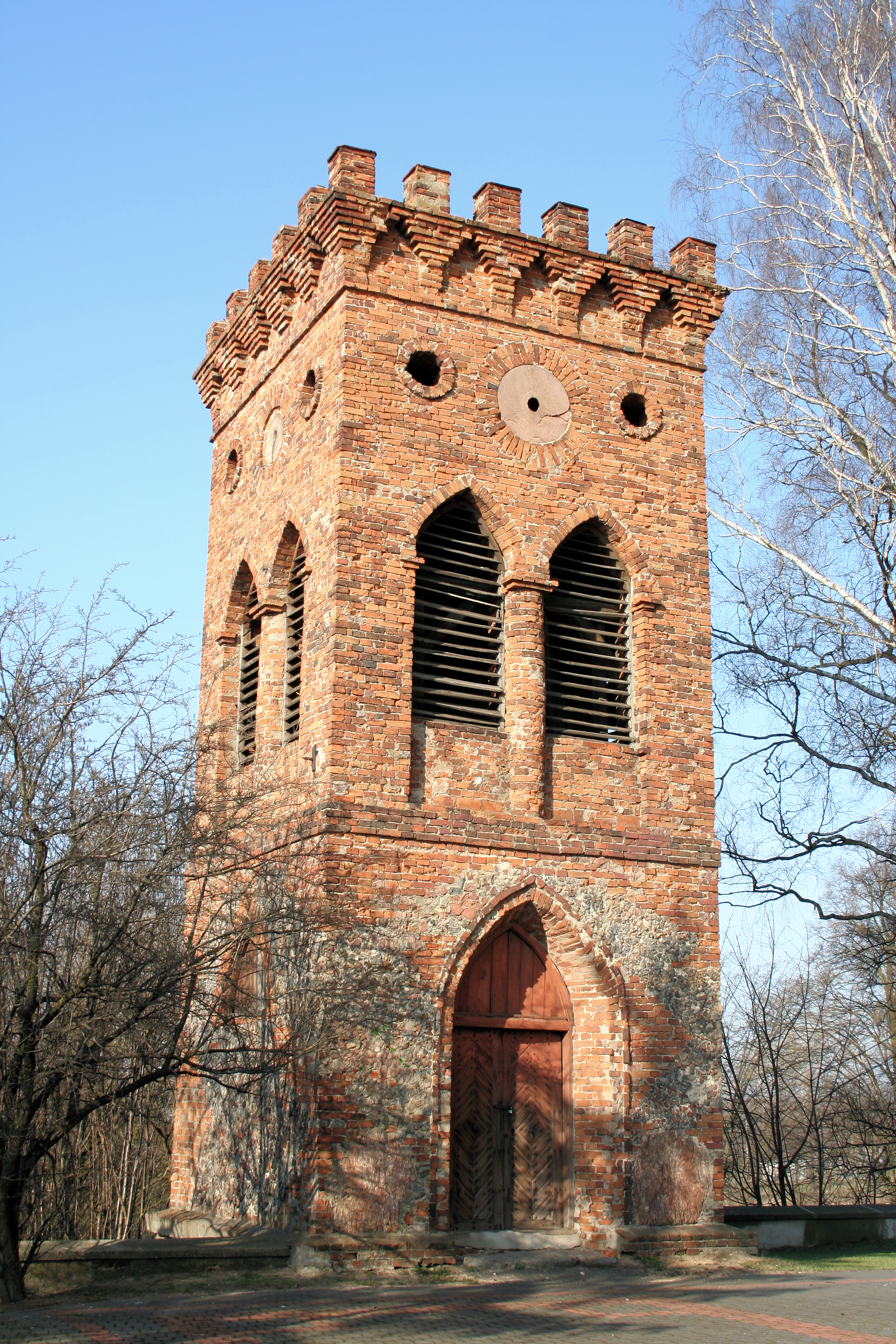 Neogothic campanile in Głuchów(powiat skierniewicki), next to St Wenceslaus church